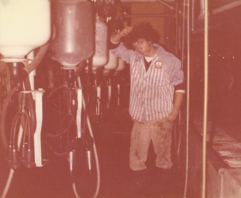 David J. Steiner in about 1982, in a photo taken by a member of the Steiner family.